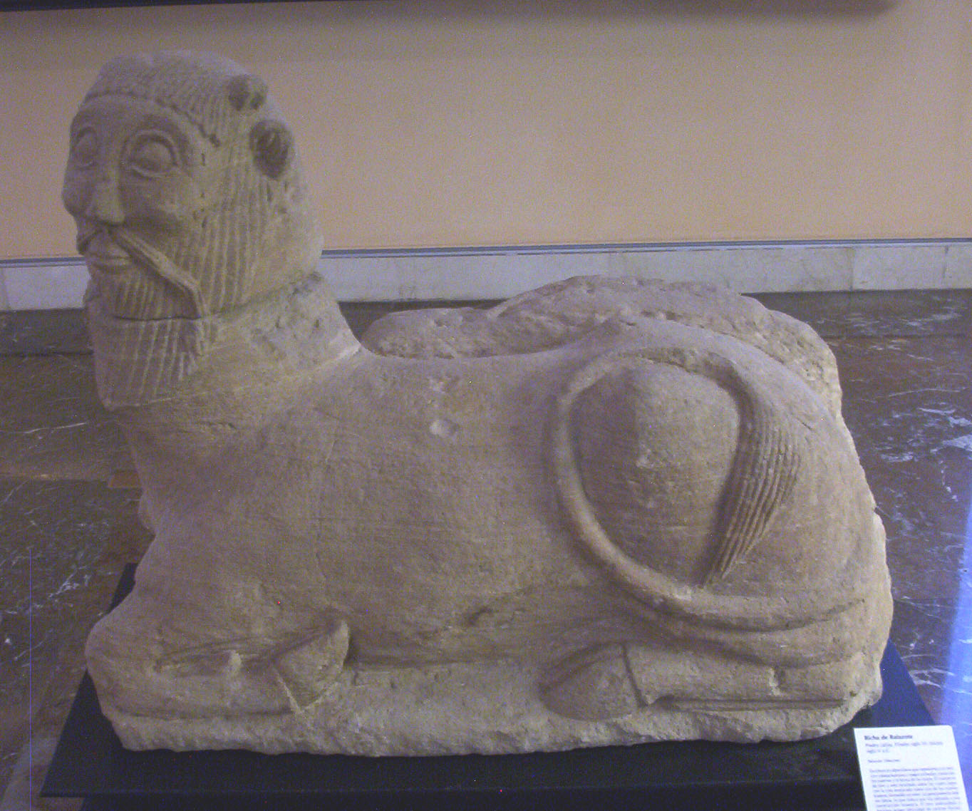 Iberian sculpture.